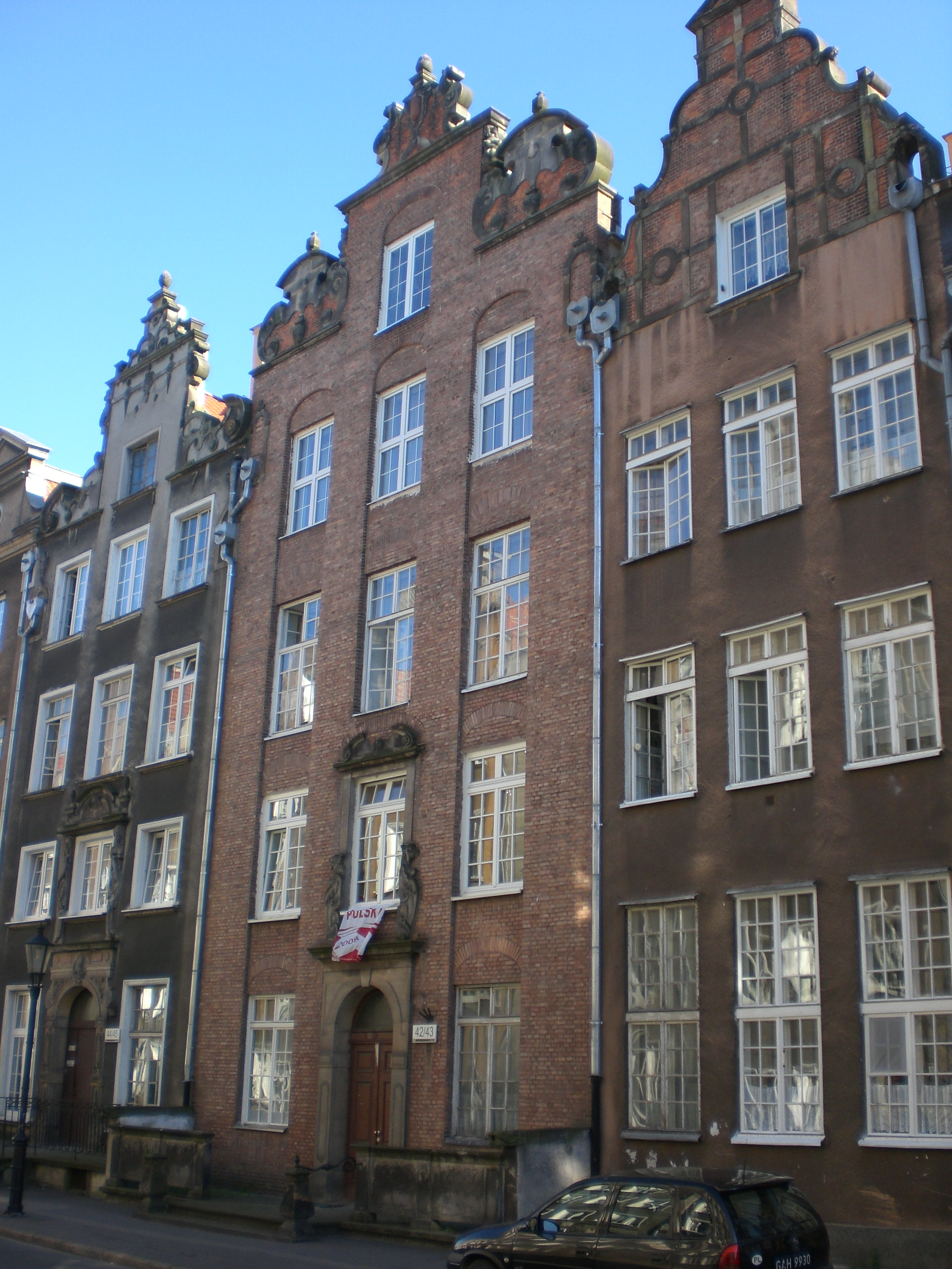 Ogarna Street in Gdańsk